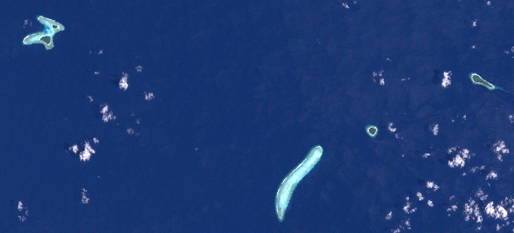 This image (Landsat 7) shows the Purdy Islands group, Bismarck Archipelago. Upper left corner shows the Bat Islands, which belongs to the Purdys.